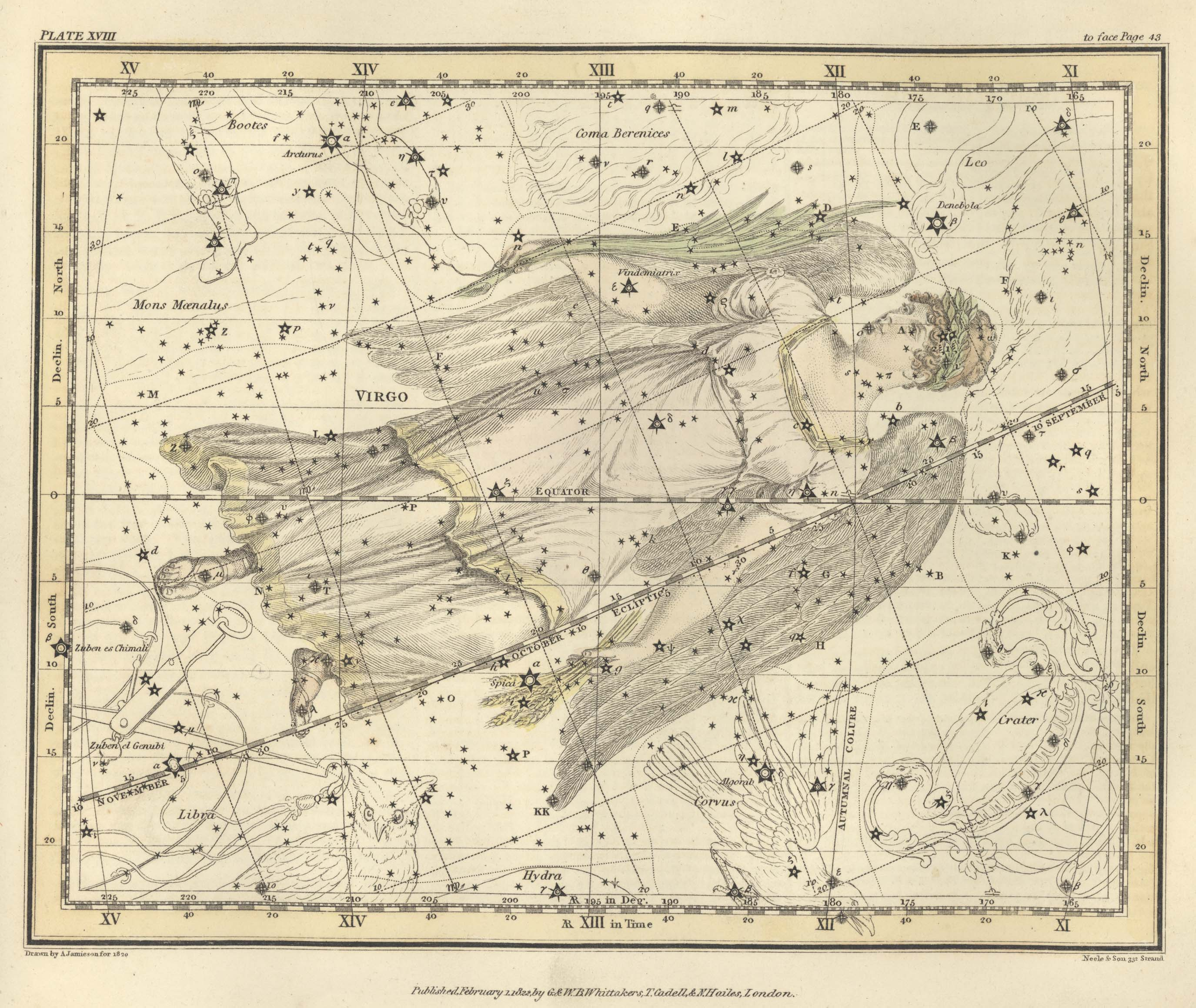 Plate 18 from A celestial atlas comprising a systematic display of the heavens in a series of thirty maps illustrated by scientific description of their contents and accompanied by catalogues of the stars and astronomical exercises